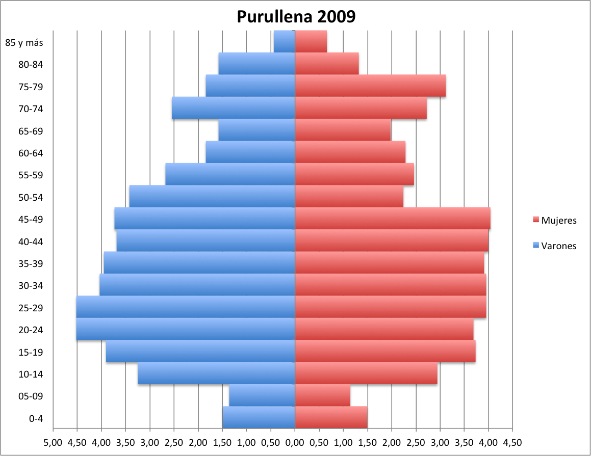 Population pyramid of Purullena, Spain 2009